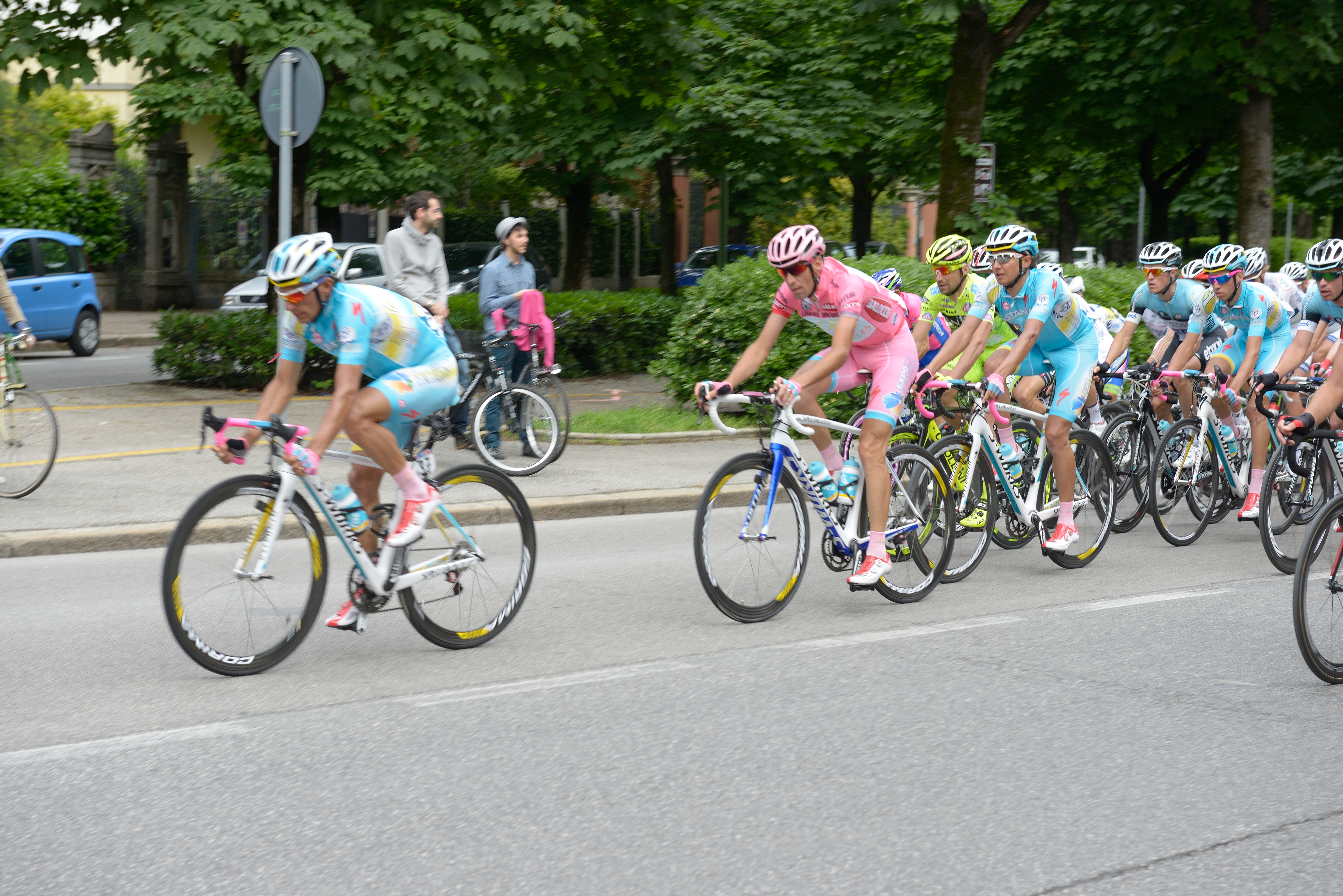 "Giro d'Italia" 2013 arrives in Brescia